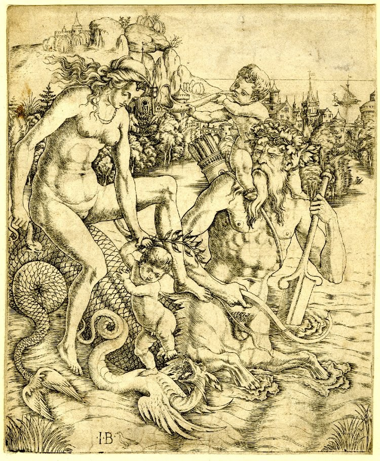 Giovanni Battista Palumba, print in the British Museum